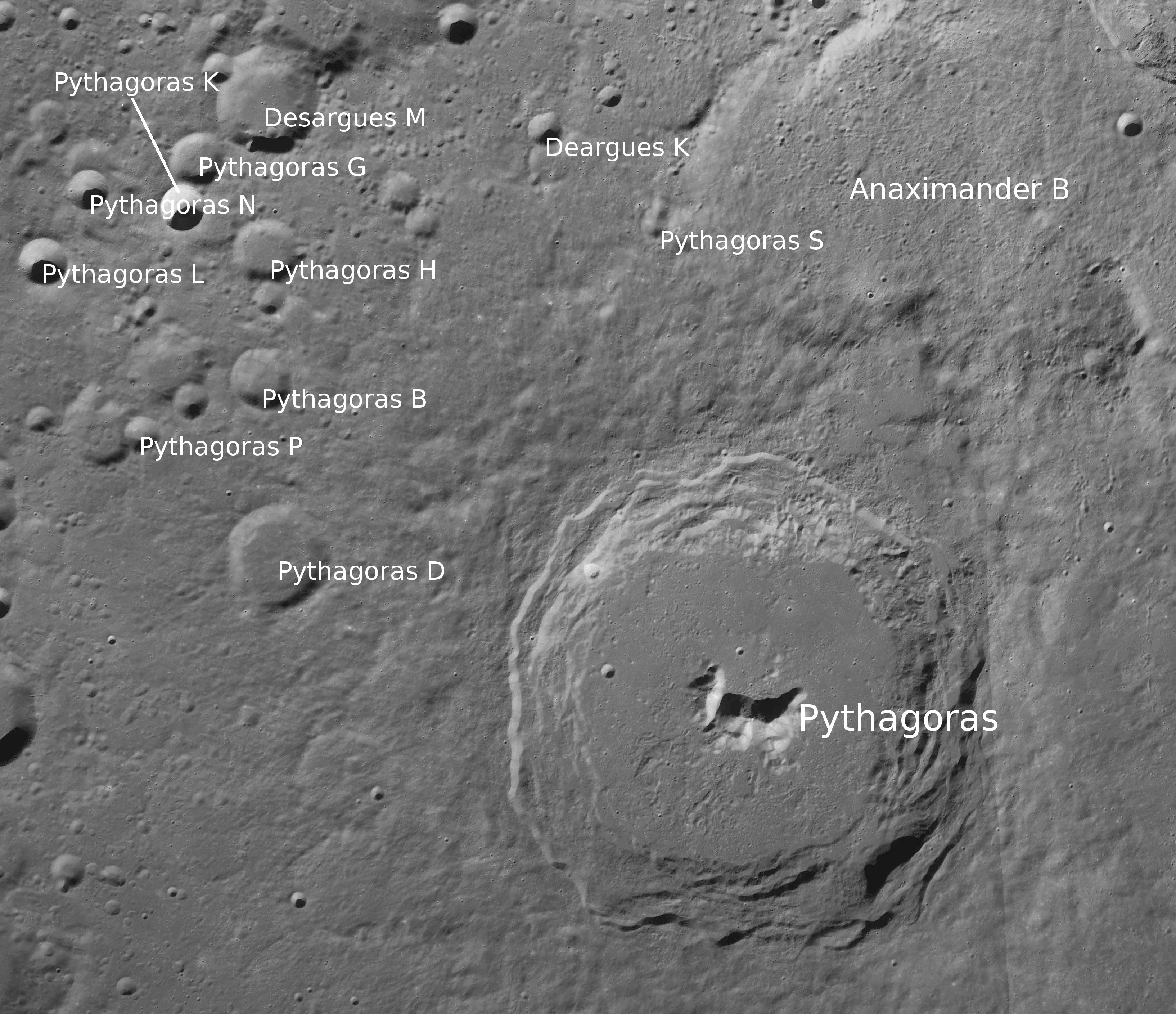 Moon crater Pythagoras with satellite features (north is up; detail of LRO - WAC north pole mosaic)